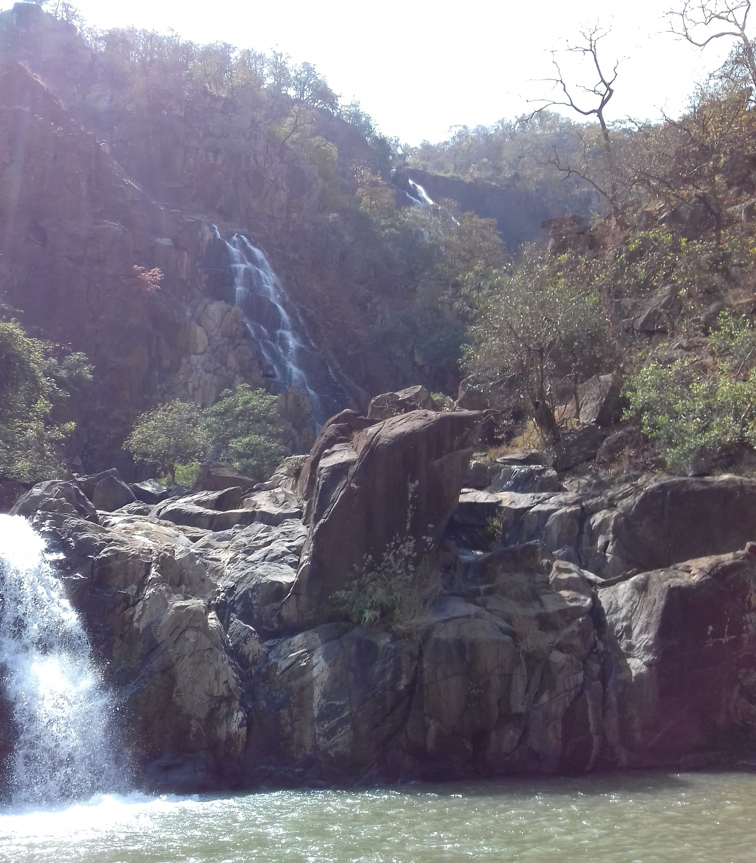 Lodh Fall